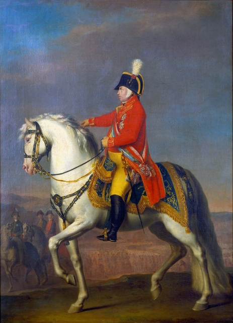 Equestrian portrait of John VI of Portugal (1767-1826)